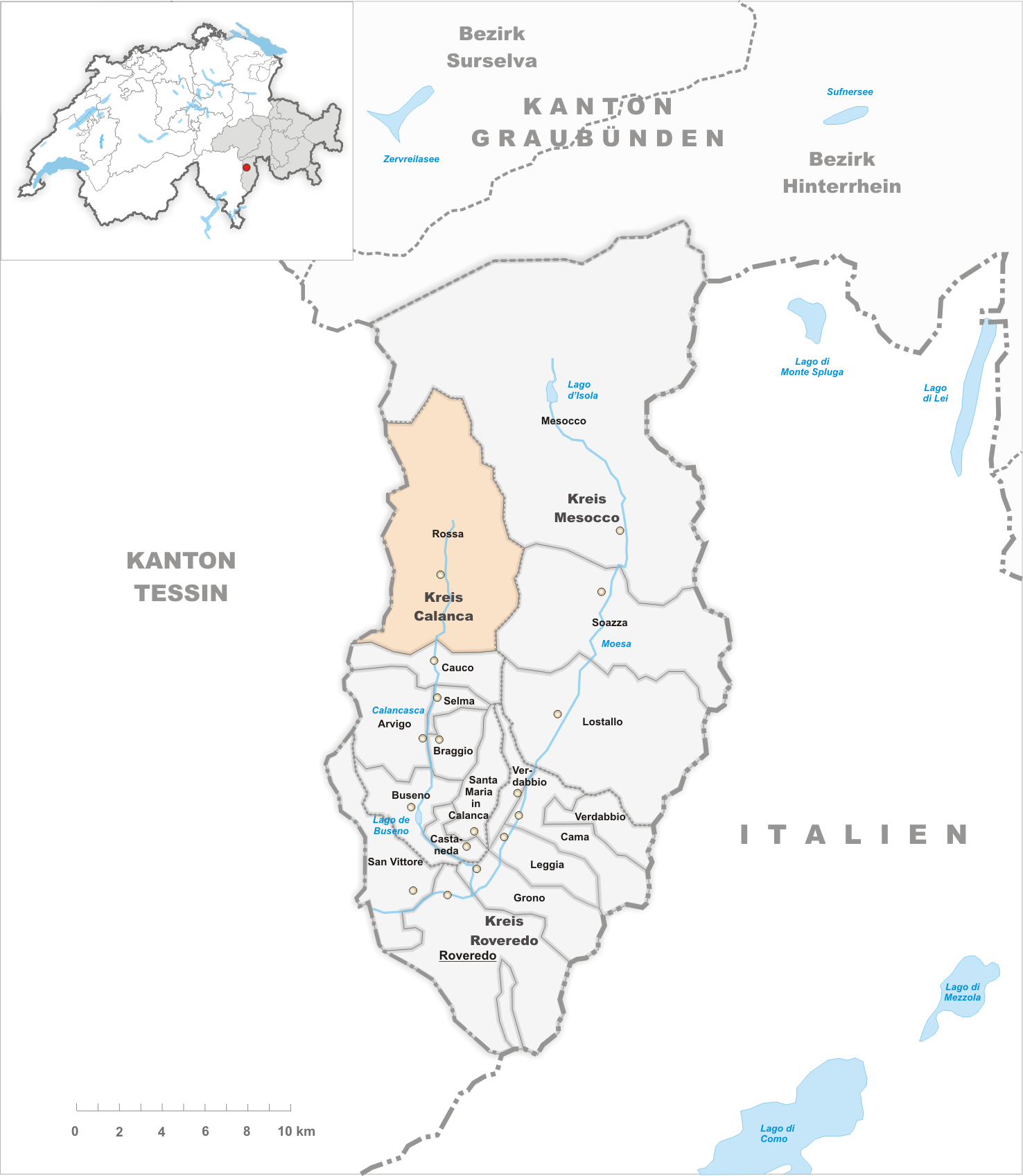 Municipality Rossa